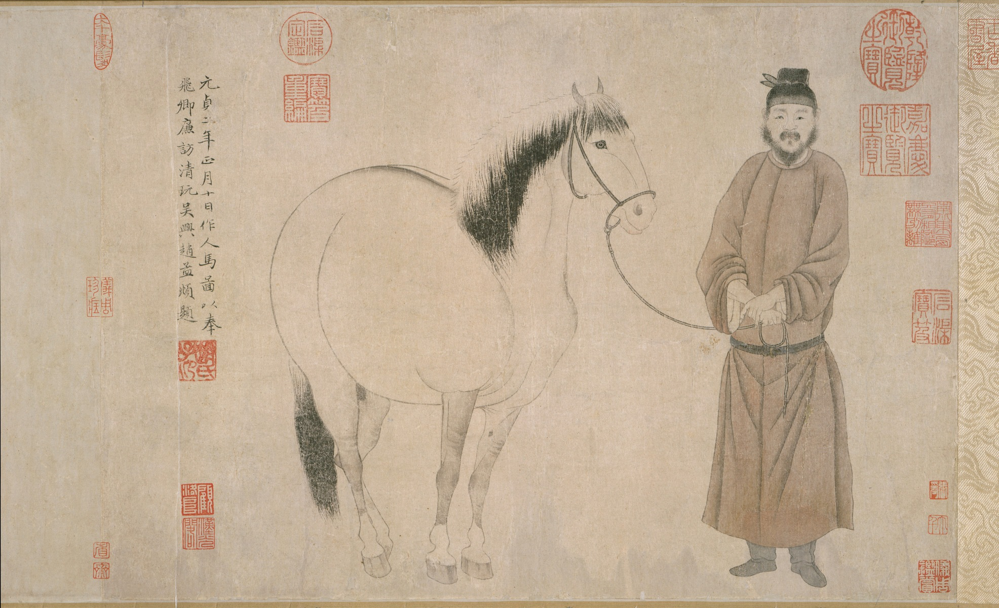 Zhao Mengfu Man and Horse, dated 1296 (30.2 x 178.1 cm); Metropolitan Mus. N-Y